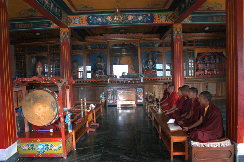 Buddhist Monastery in Lava, West Bengal